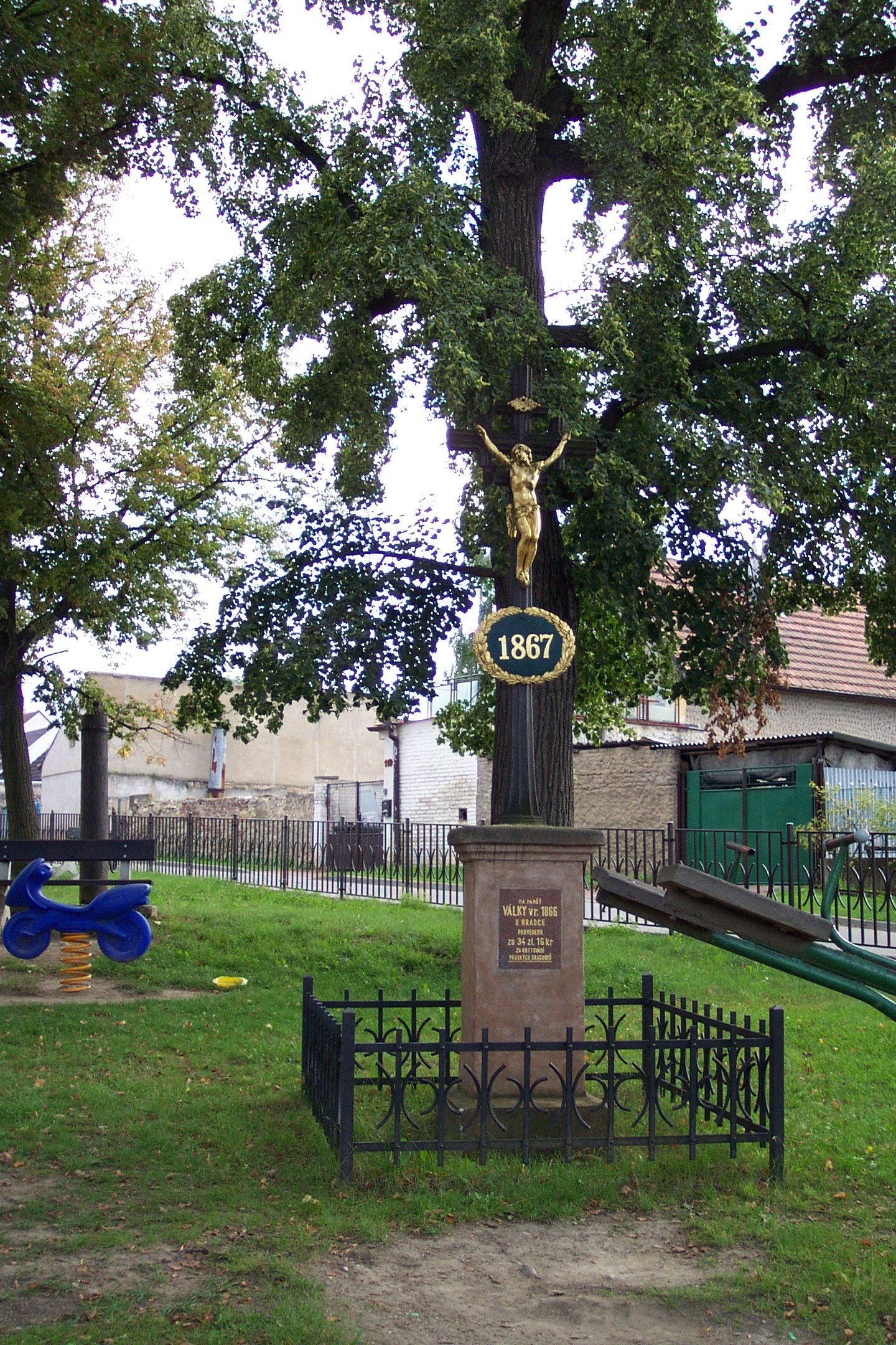 Horoměřice, Prague-West District, Czech Republic. Wayside cross commemorating Austro-Prussian War of 1866.